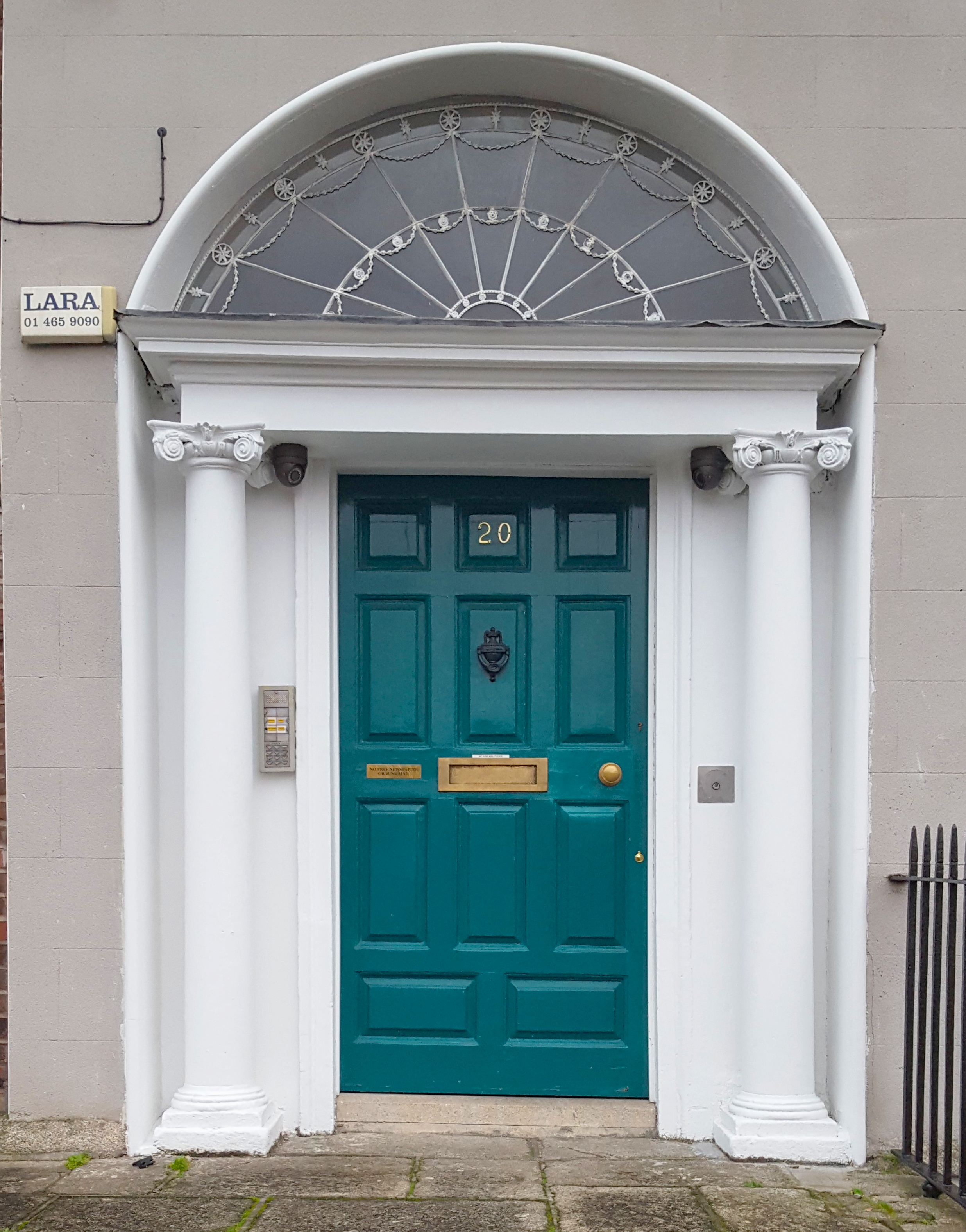 In November 1968 Dennis Dennehy moved in with his wife and two children to 20 Mountjoy Square, abandoned by its owner. Dennehy was a member of the radical socialist group the Irish Communist Organisation, and the campaigning group